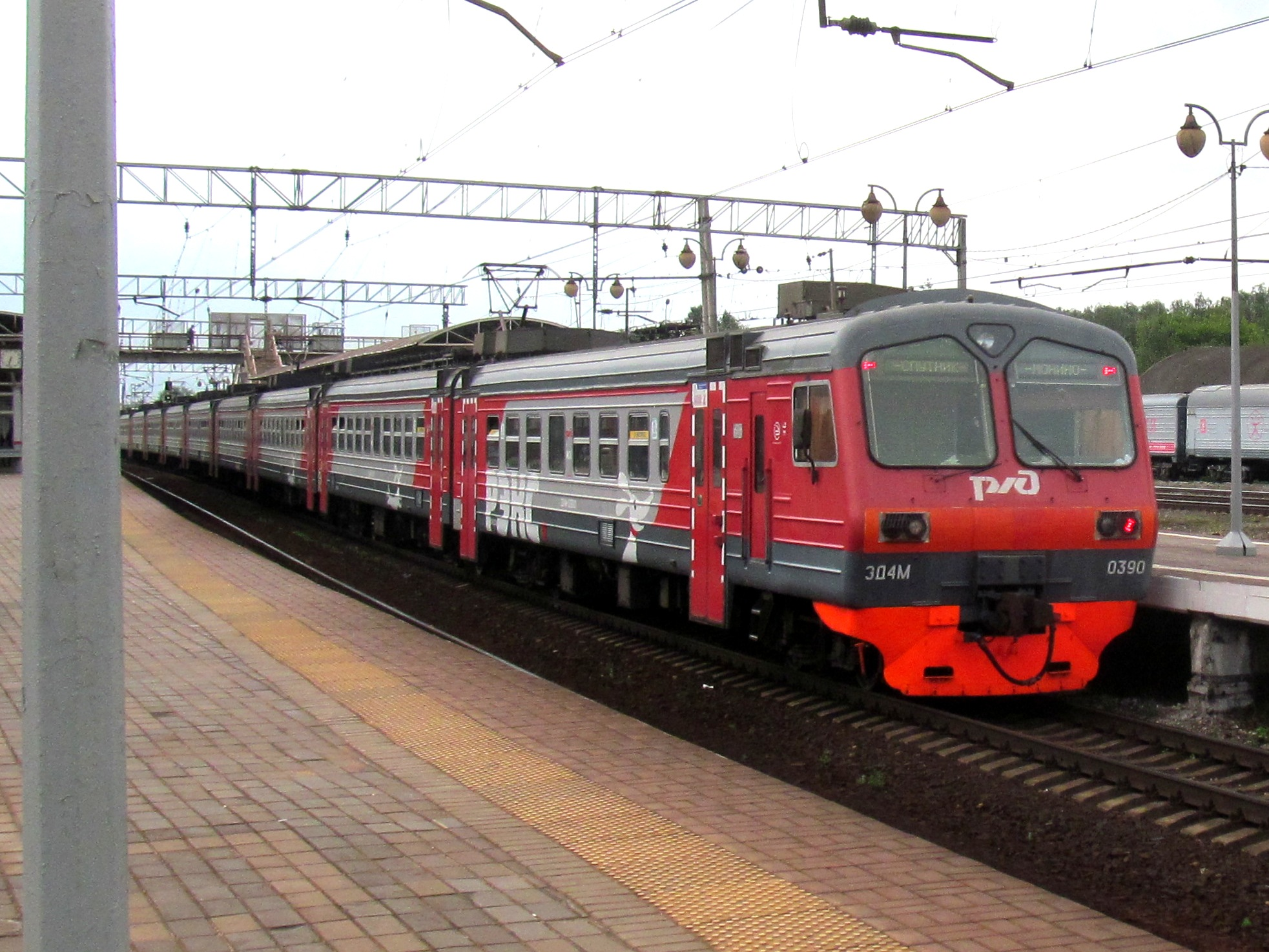 ED4M-0390 EMU in combined RZD-REKS livery at Moscow III platform of Moscow Railway